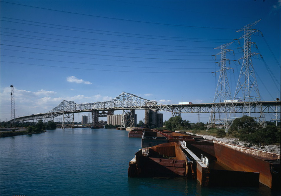 Southern side of the main span of the Chicago Skyway Toll Bridge, which carries the Chicago Skyway over the Calumet River, viewed from the 100th Street Bridge. It was completed in 1958.